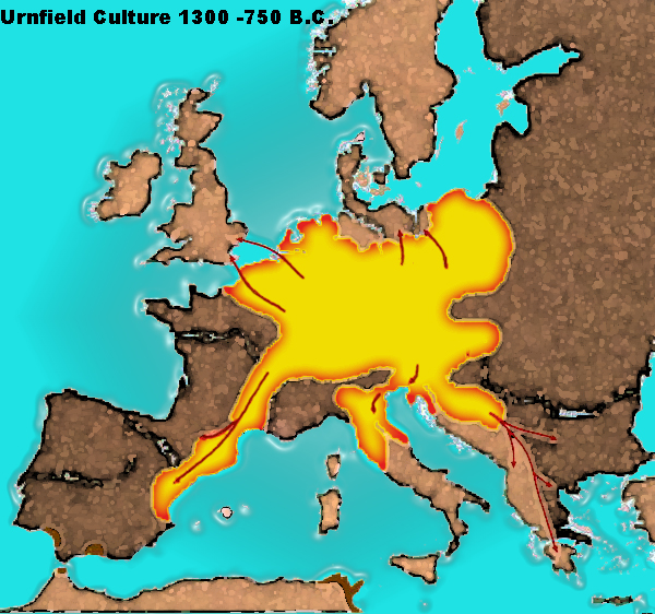 Expansion of the Urnfield Culture in Europe.